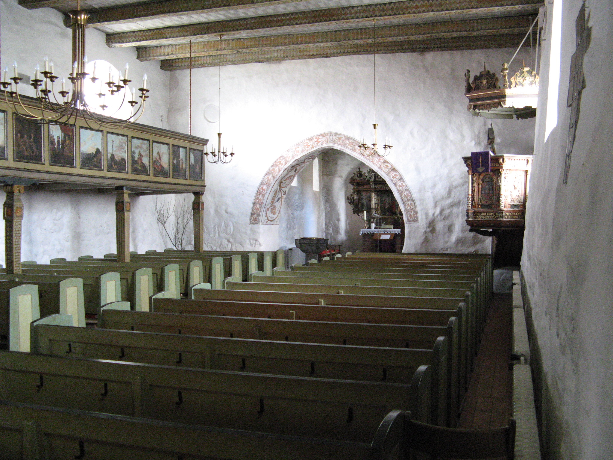 st. catharine church in Süderstapel Author: Dirk Ingo Franke